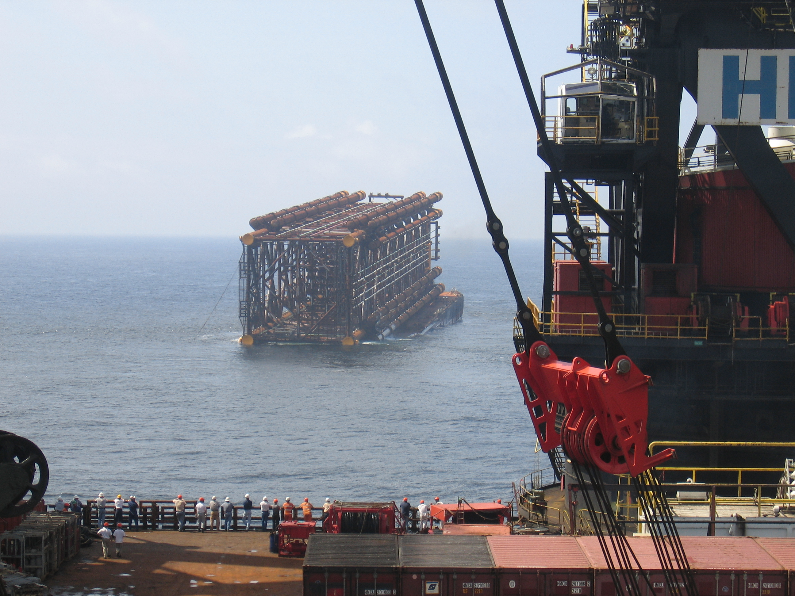 Benguela Belize tower base during launch from H-851, seen from SSCV Thialf, 15-4-2005.